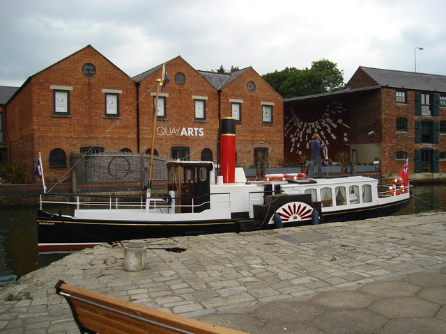 Paddle Steamer Monarch PS Monarch berthed outside the Quay Arts Centre.